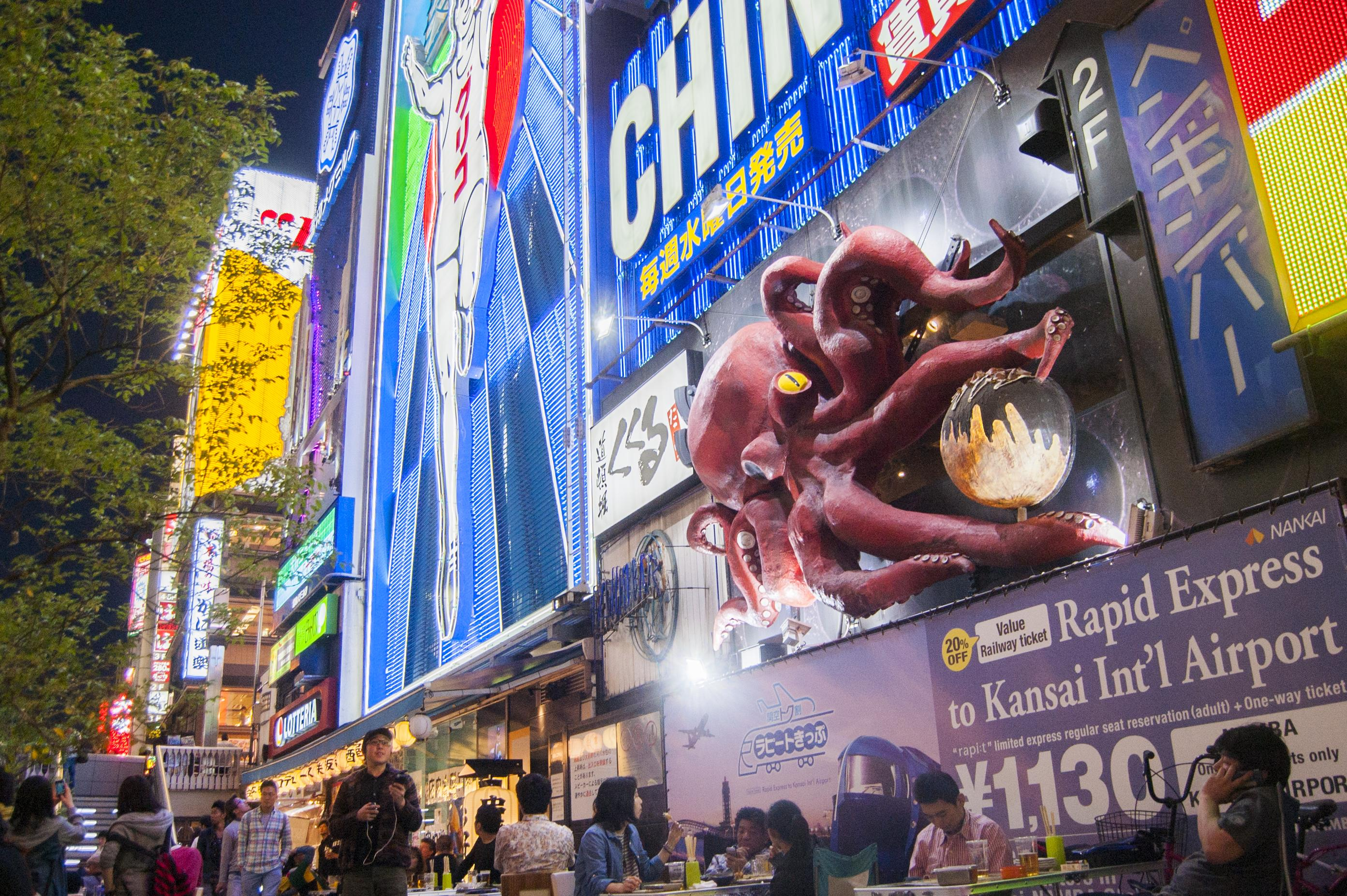 Boardwalk along the Dōtonbori Canal in Osaka, Japan